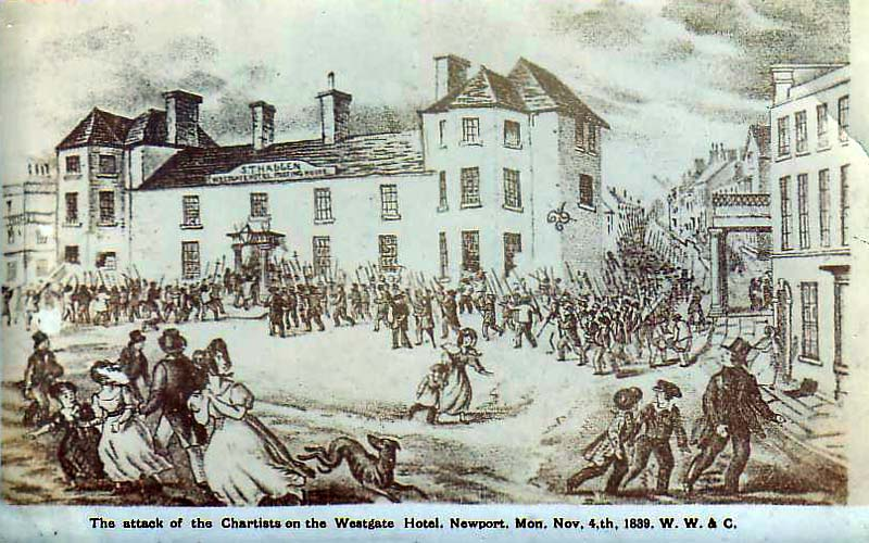 The attack of the Chartists on the Westgate Hotel, Newport, Mon. Nov 4th 1839